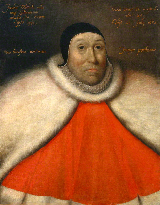 A painted portrait of Sir James Whitelocke (28 November 1570 – 22 June 1632), an English judge and politician who sat in the House of Commons of England between 1610 and 1622.